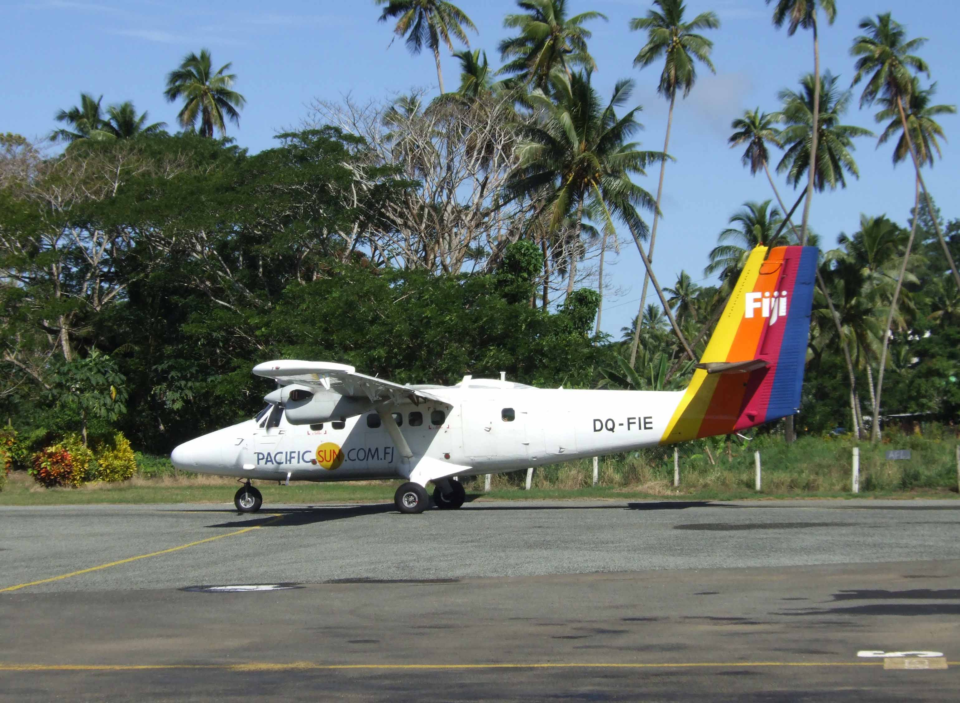 Pacifc Sun DQ-FIE - A De Havilland DHC-6-300 Twin Otter Taken at the Savusavu Airport, Fiji Islands